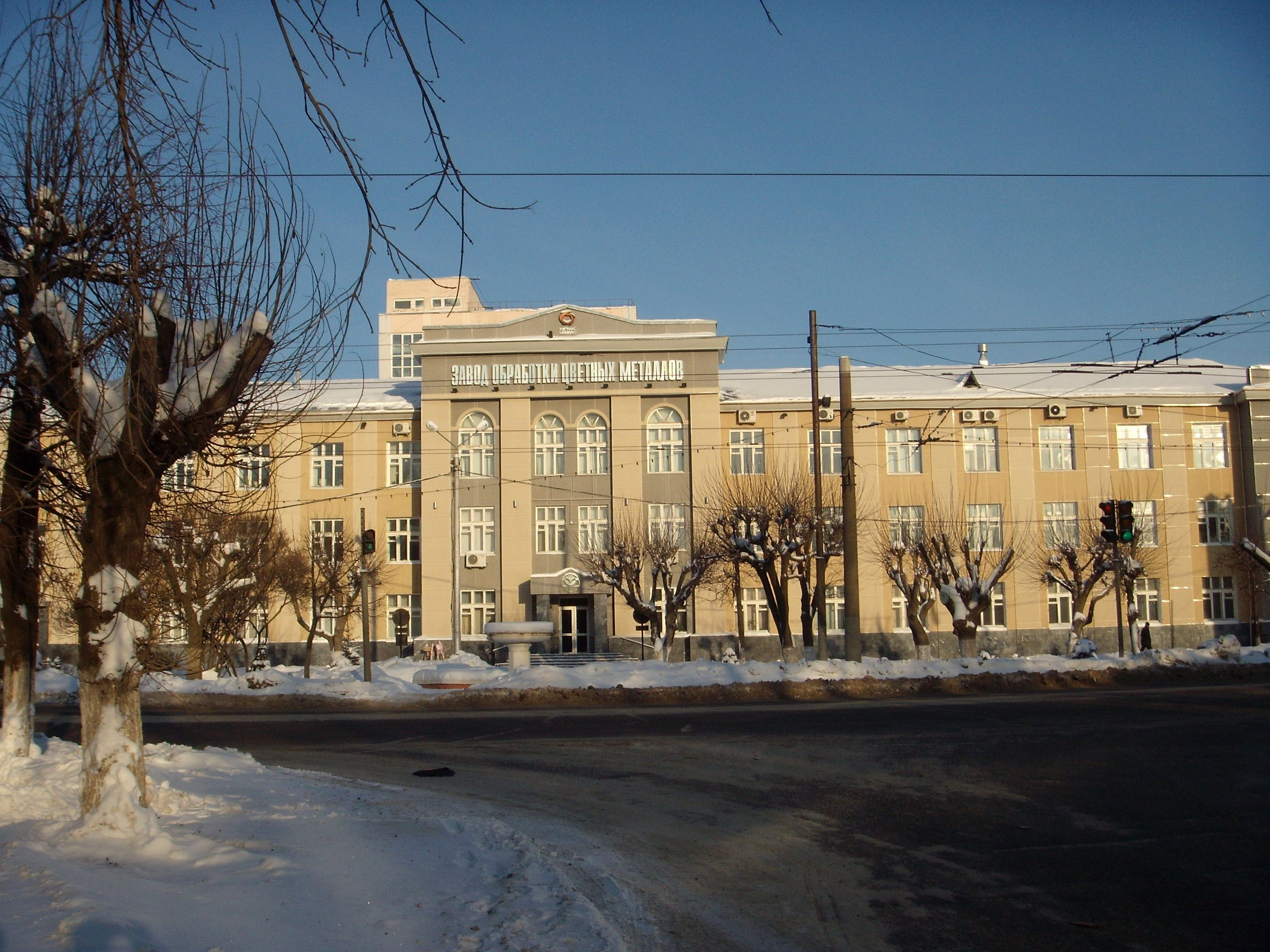 Administrative building of factory «OCM», Kirov